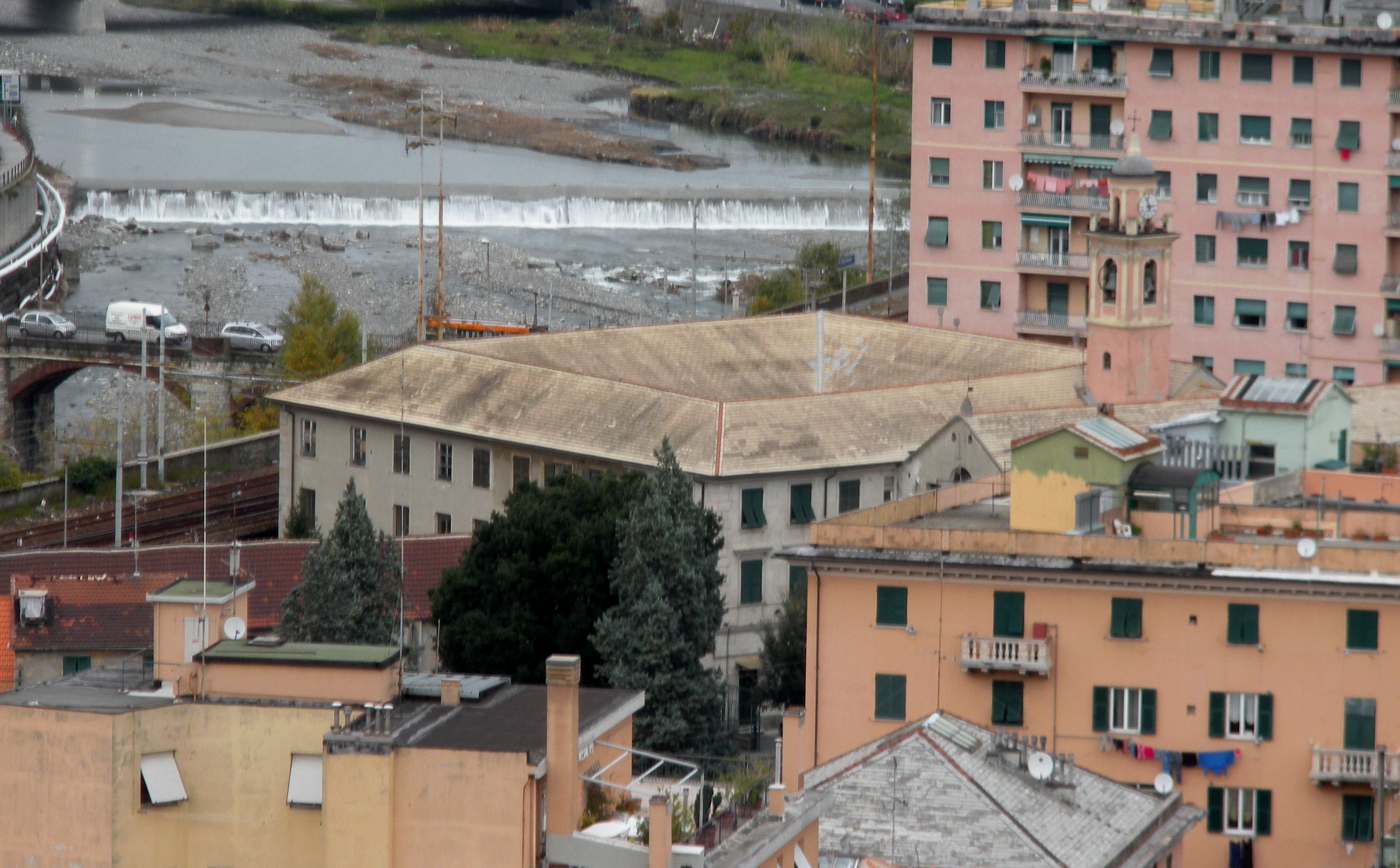 Genoa (Italy), quarter of Bolzaneto, church and monastery of St. Francesco alla Chiappetta